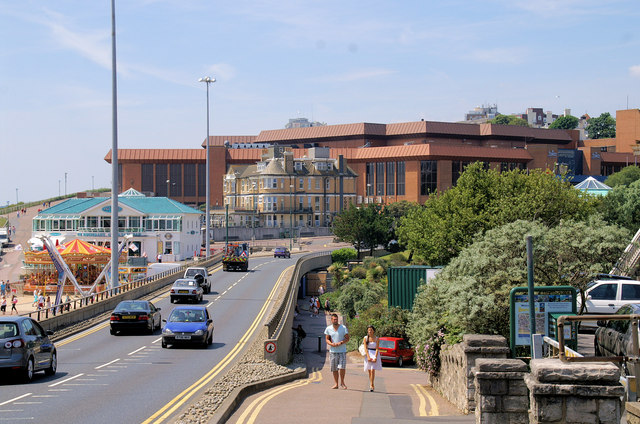 Bournemouth - view towards International Centre Looking westwards along Bath Road towards BIC.